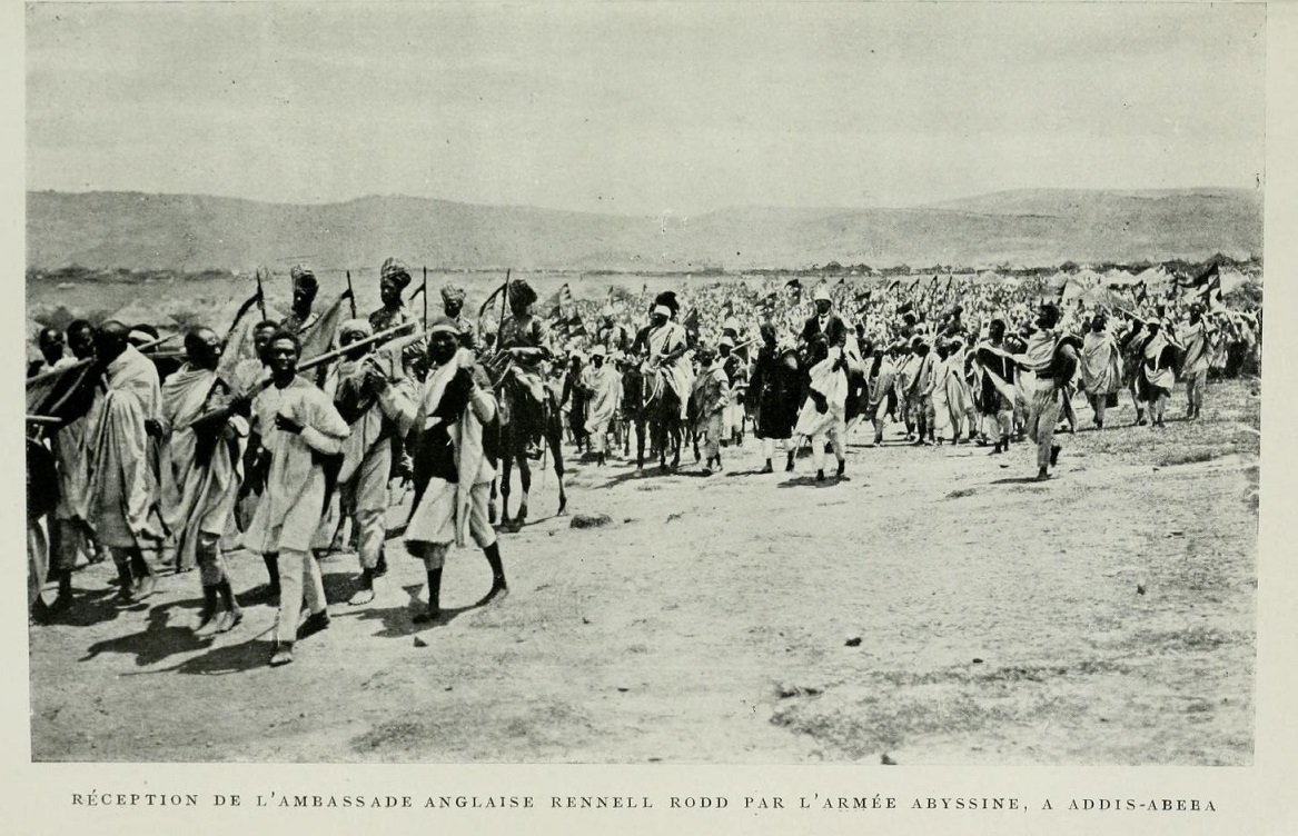 Photo showing the members of the Rennell Rodd mission to Ethiopia being accompanied by Ethiopian soldiers at its arrival at Addis Ababa in 1897. Photo from the book Vers Fachoda. À la rencontre de la mission Marchand, by Charles Michel (1902).